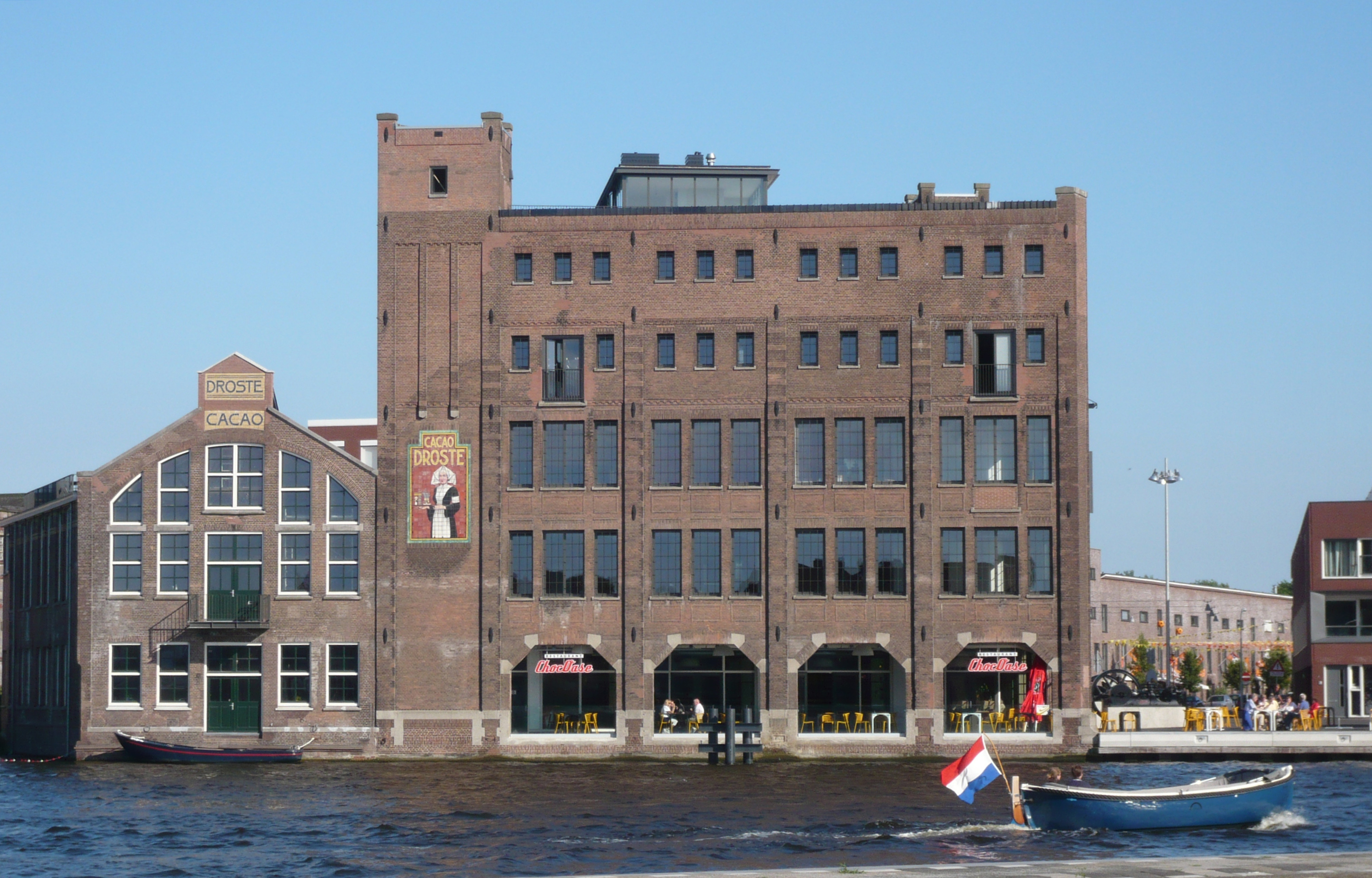 Droste Cacao Factory after restoration, Spaarne, Haarlem, the Netherlands